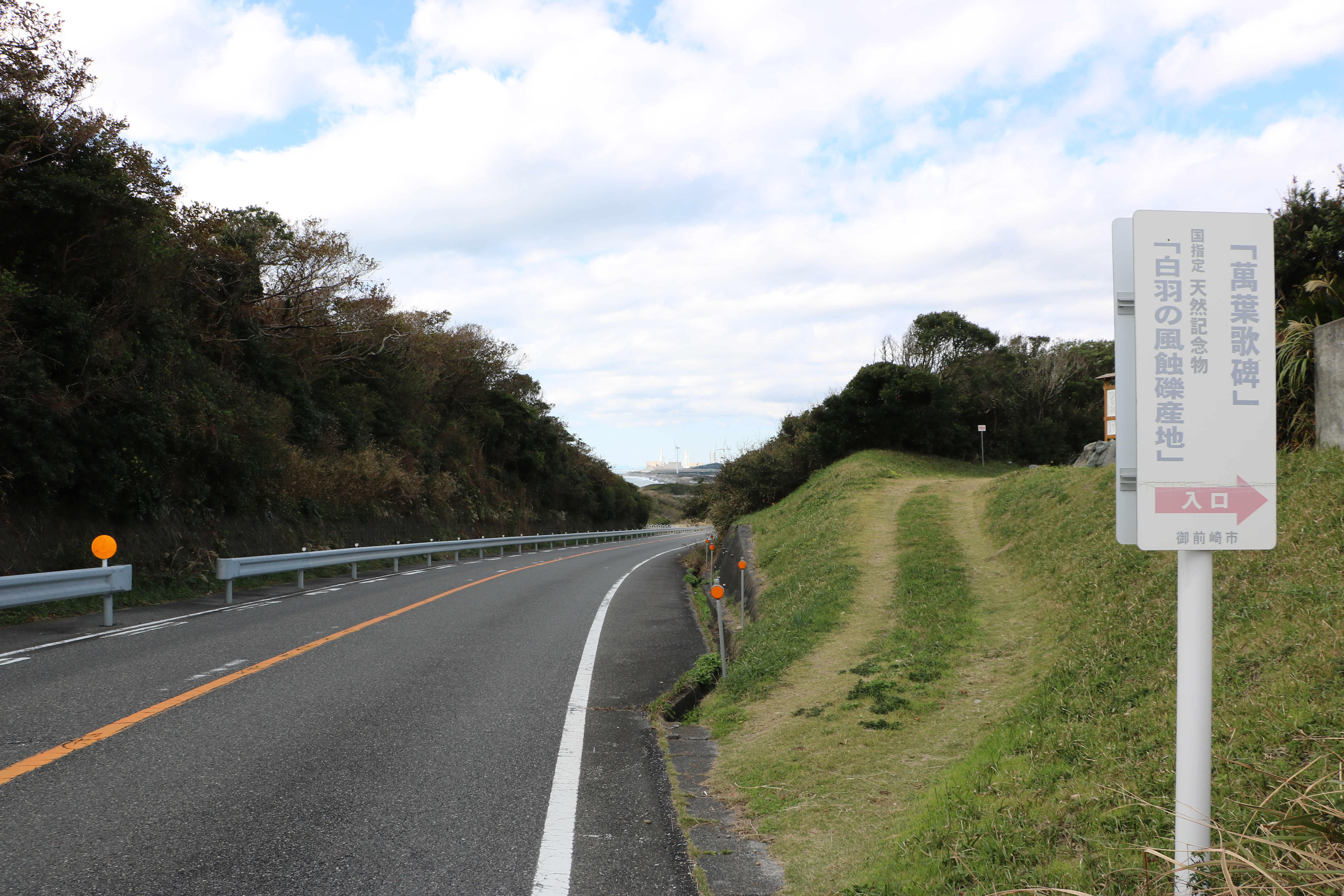 Shirowa district Dreikanter and Ventifacts production area